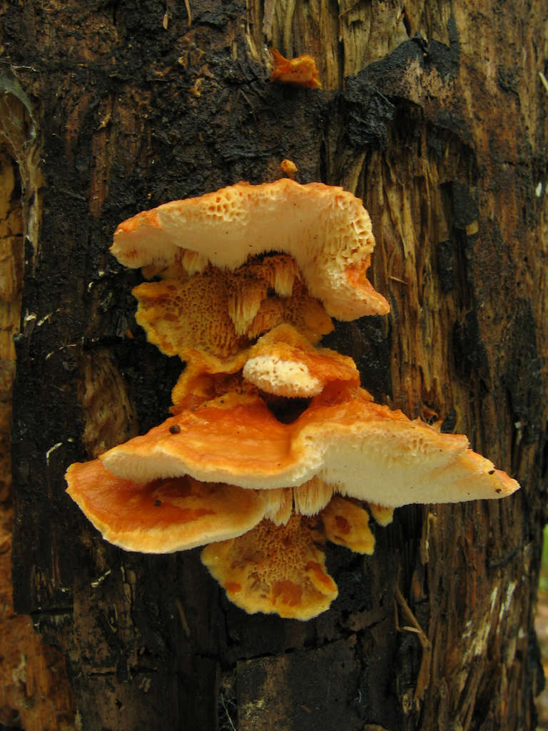 Pycnoporellus fulgens, China